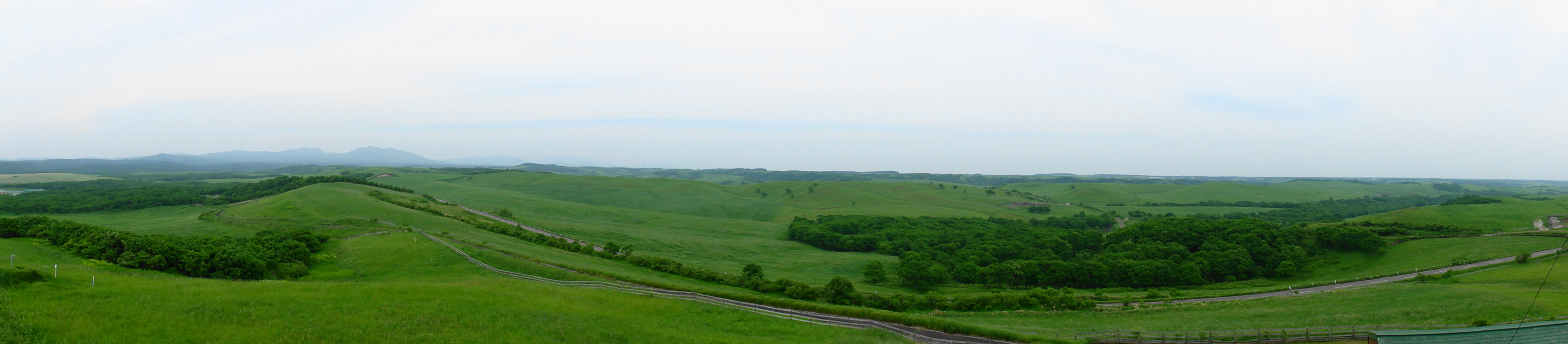 View from Tawadaira (east from the west))